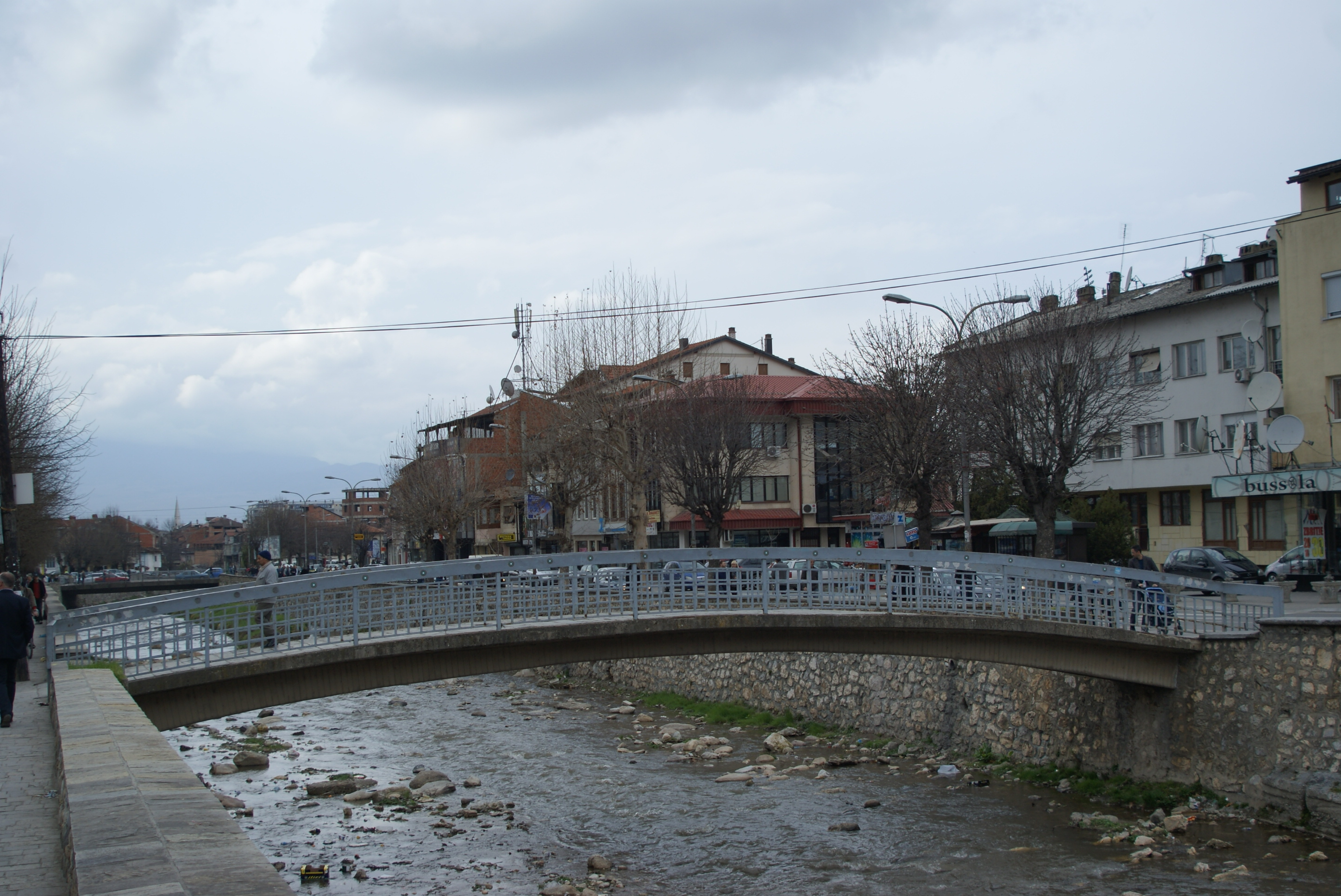 Ura e Naletit